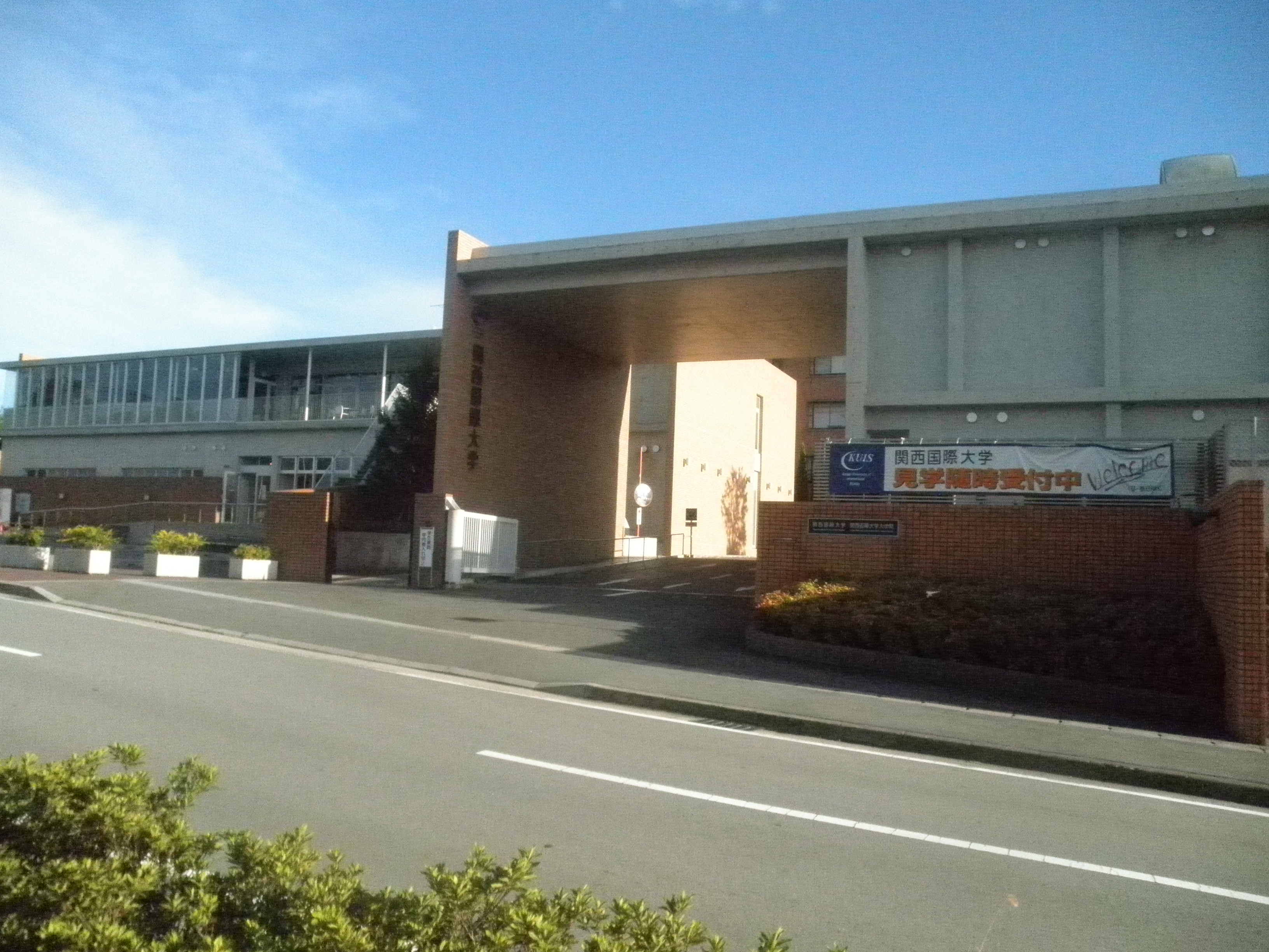 Kansaikokusai University Miki Campus